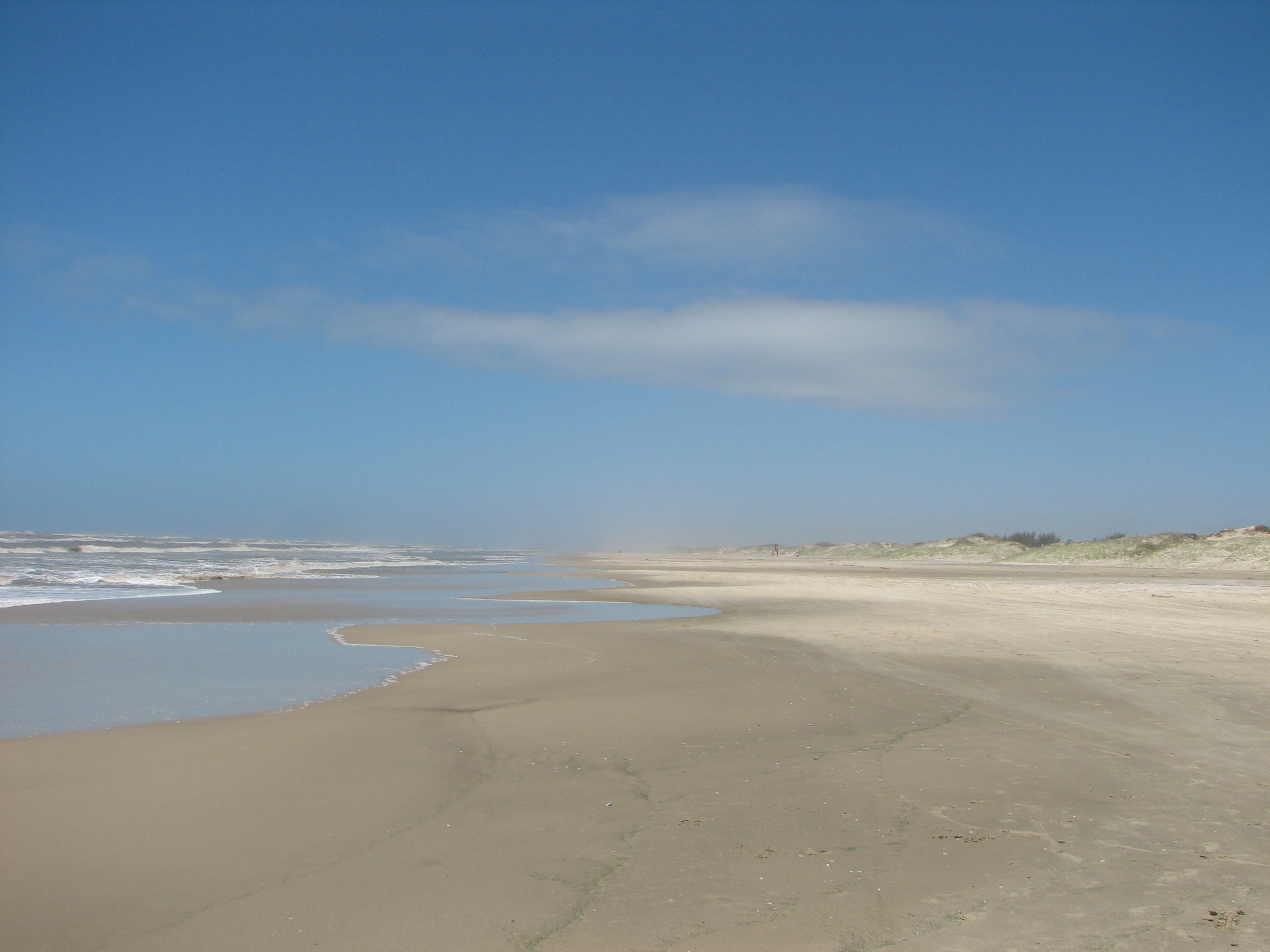 Praia de Quintão